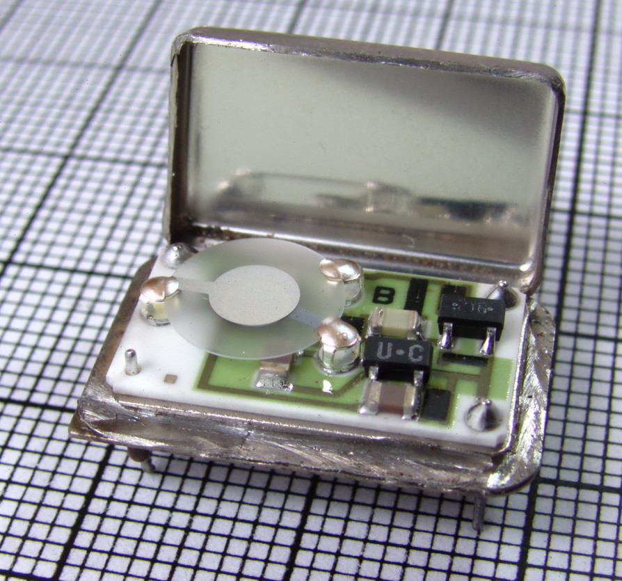 Internals of Kyocera KXO-01 16.257MHz crystal oscillator.